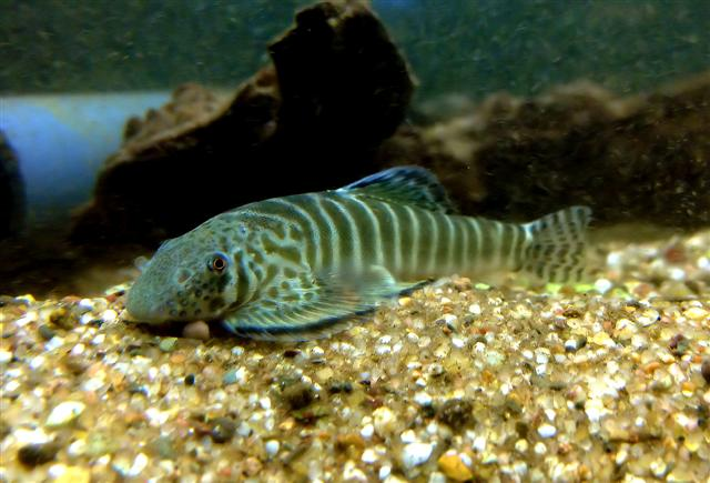 Belgium, by Gregoire Germeau